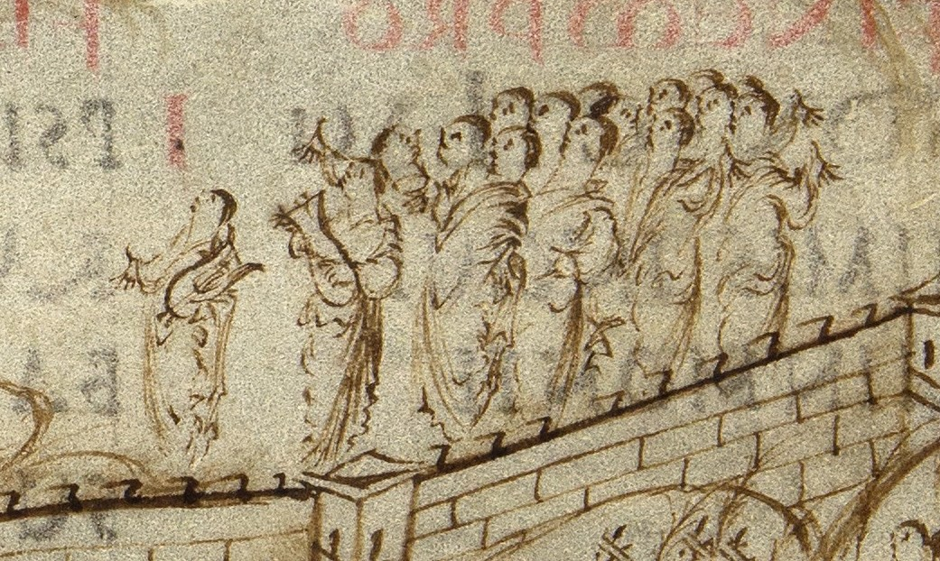 People singing praises to God, with cithara-lyre (left) and harp or psaltery.